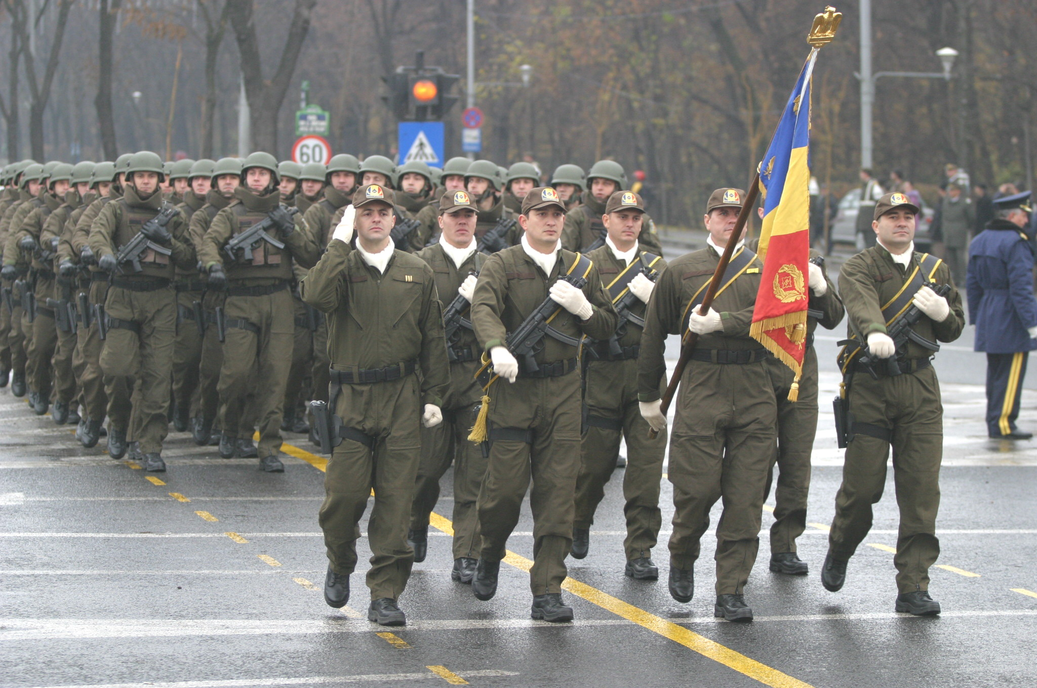 A detachment of the Counter-Terrorism Brigade (part of the Romanian Intelligence Service) during rehearsals for the National Day of Romania (2008).